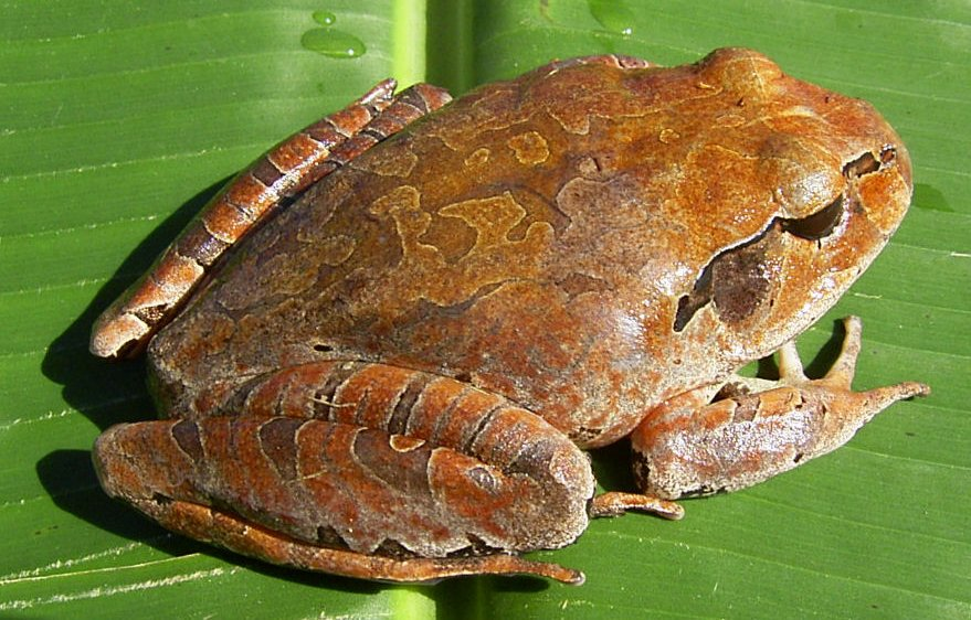 Northern Barred Frog (Mixophyes schevilli) of northern Australia